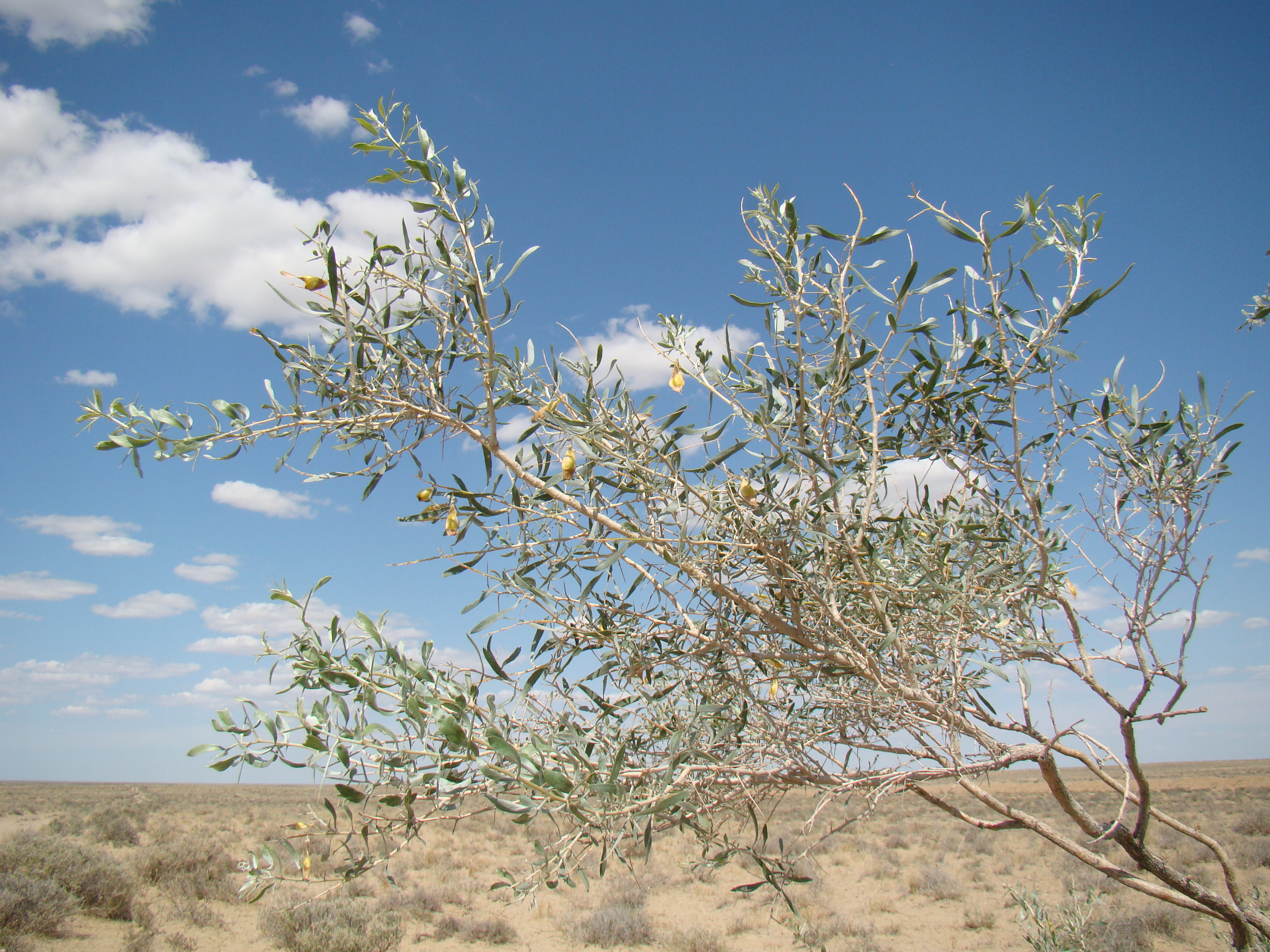 Ammodendron sp. Near Baikonur, Kazakhstan.